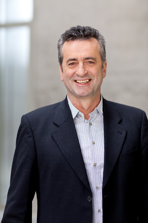 Picture of Günter Rausch